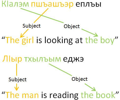 Transitive verbs that have an absolutive case subjects